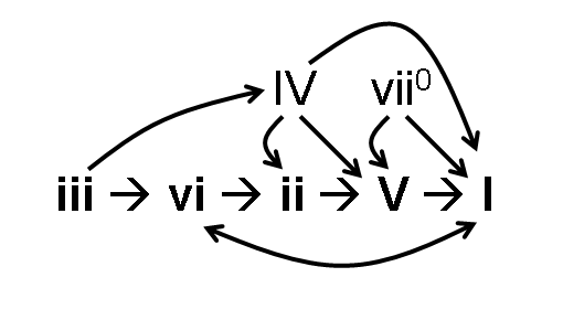 Range of chord progressions in major.